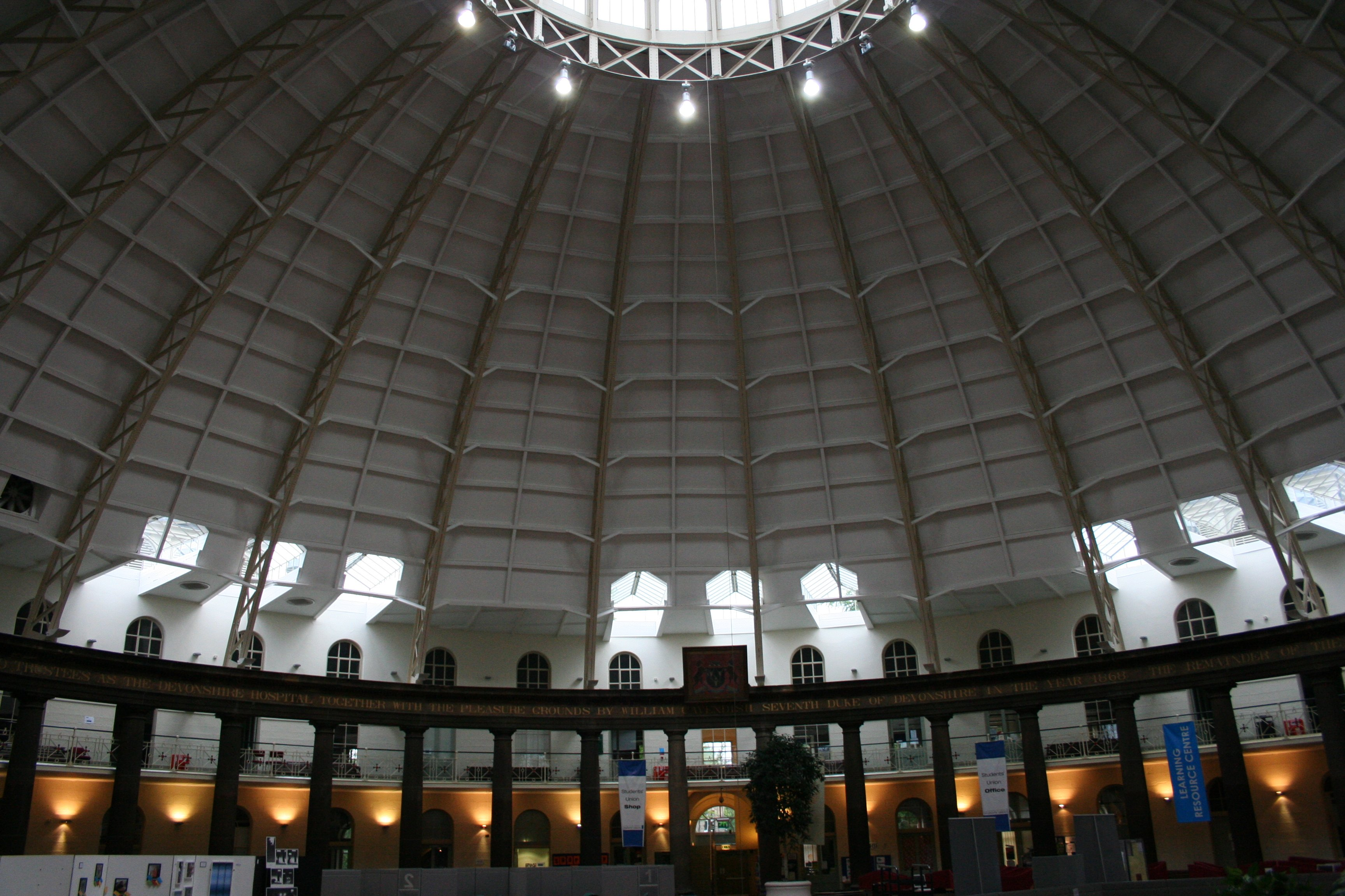 Devonshire Dome in Buxton, Derbyshire, England. The dome was previously the Devonshire Hospital; it now serves as the Devonshire Campus of the University of Derby.